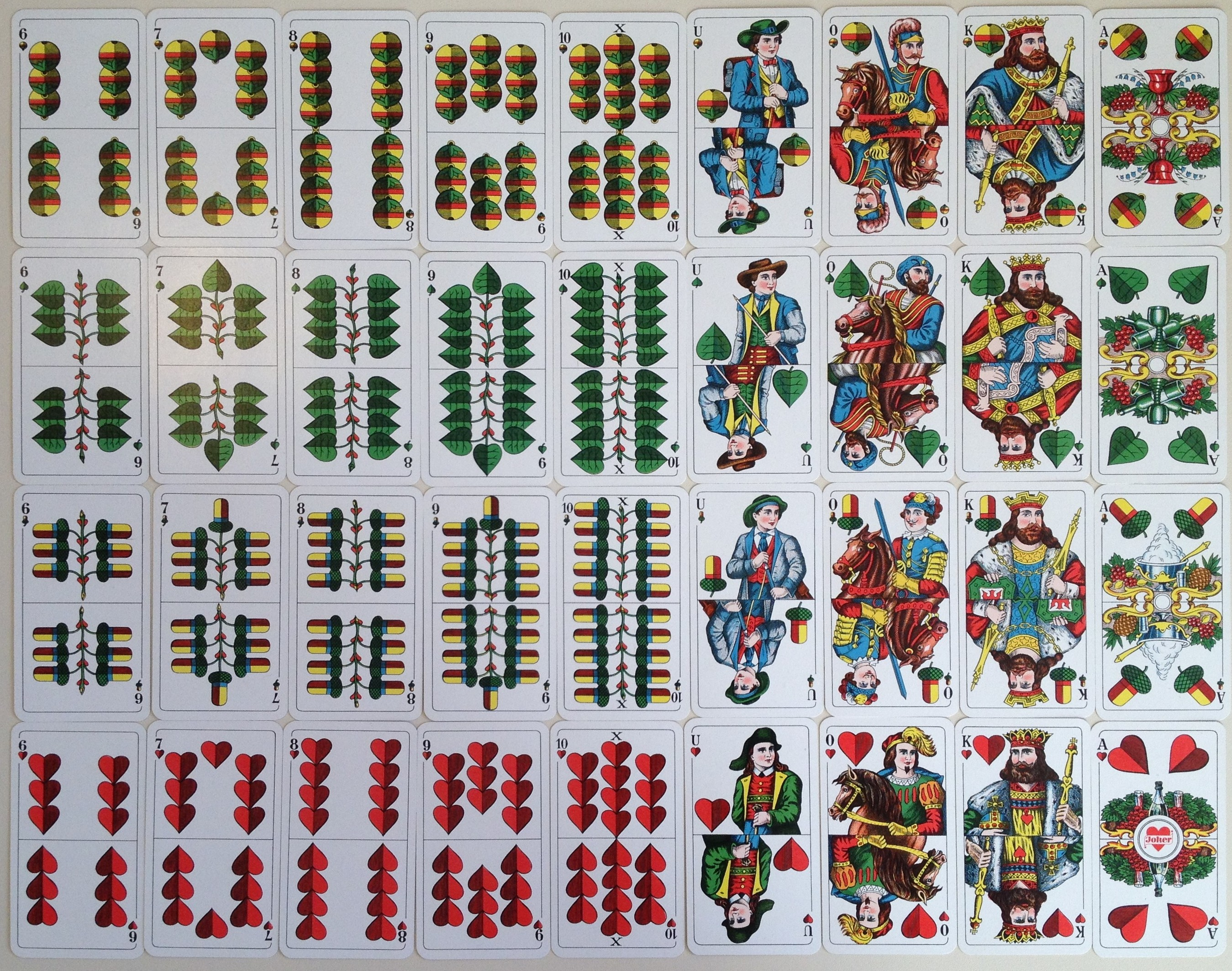 Deck of playing cards used to play Württembergischer Tarock. It uses the Württemberg pattern but in the older 36 card format which is no longer printed. This pattern is now only produced in the Binokel (Pinochle) format.